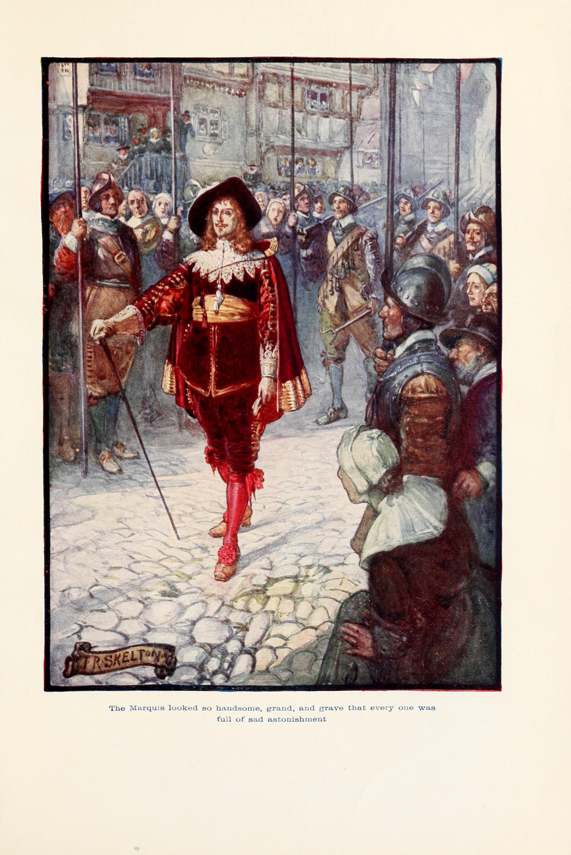 Scotland's story : a history of Scotland for boys and girls by Marshall, H. E. (Henrietta Elizabeth), b. 1876 Published 1907 SHOW MORE List of Kings from Duncan I.: p. 419-421 Publisher London : T.C. & E.C. Jack Pages 496 Possible copyright status NOT_IN_COPYRIGHT Language English Digitizing sponsor MSN Book contributor New York Public Library Collection newyorkpubliclibrary; americana Full catalog record MARCXML [Open Library icon]This book has an editable web page on Open Library.